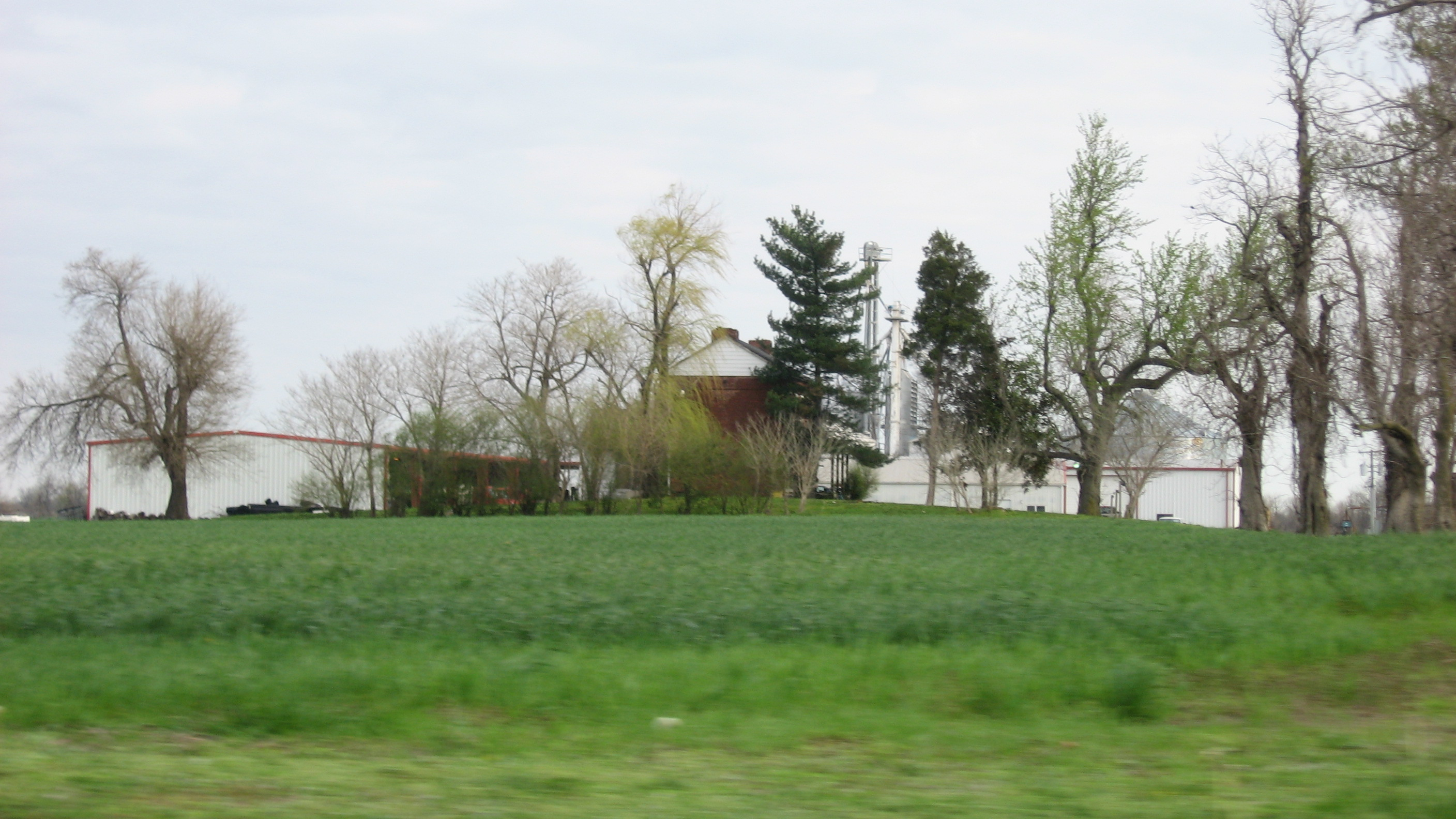 Southern side of the Jacob Swank House, located on the northern side of U.S. Route 62/Missouri Route 77 west of Charleston in Mississippi County, Missouri, United States. Built in 1839, it is listed on the National Register of Historic Places.